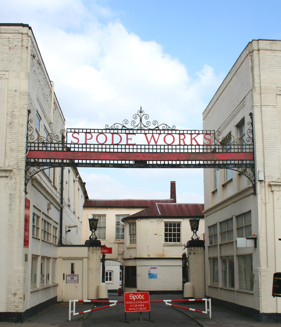 Entrance to Spode Pottery Works, Stoke Main entrance to the Spode Pottery Works on Church Street. Established in 1770, the pottery still occupies its original site. The factory chimney is visible behind